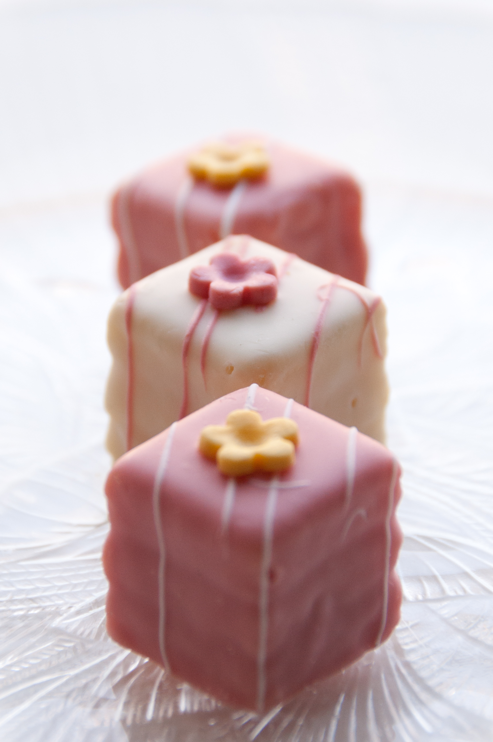 Pink and white Easter petits fours.